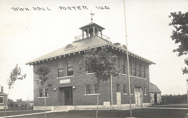 A postcard of Porter Town Hall, circa 1915